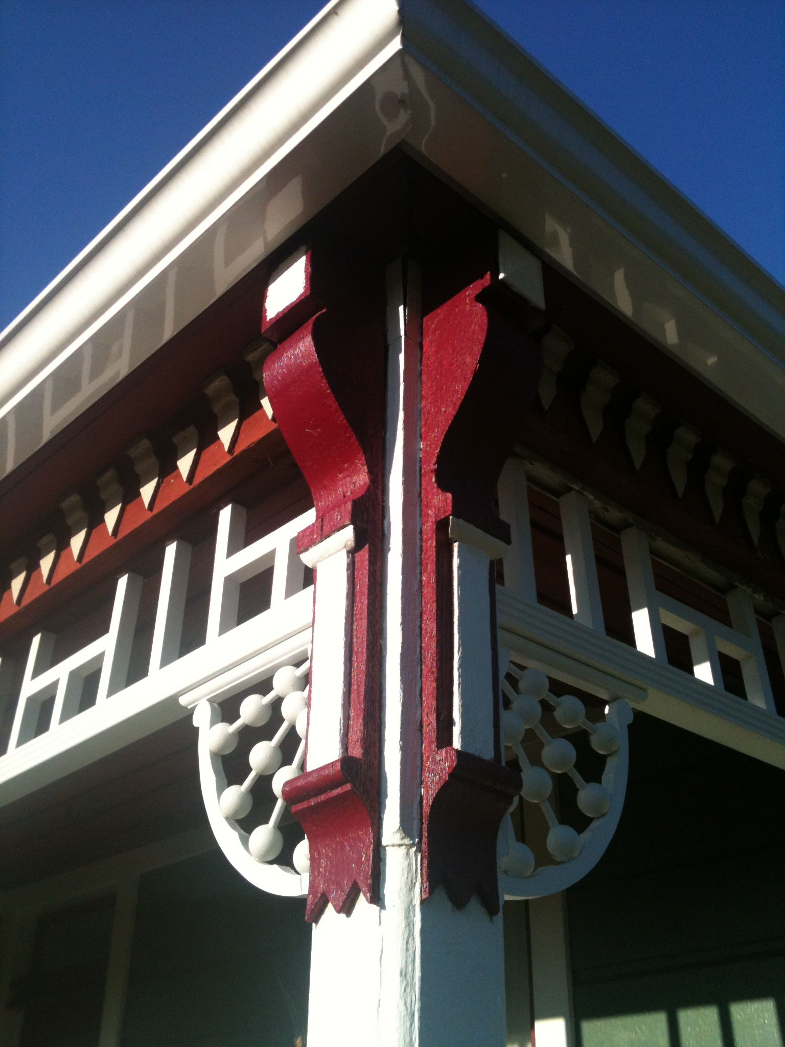 A picture of the Captain Hale House Porch Detail